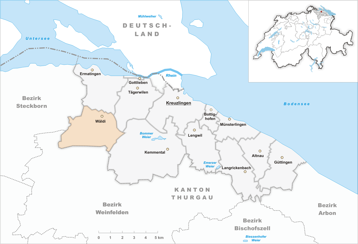 Municipality Wäldi